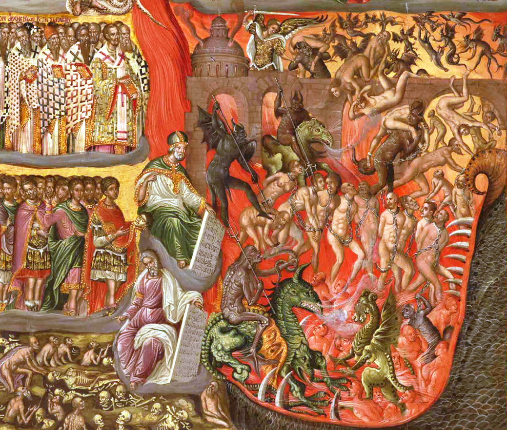 A painting by Georgios Klontzas (Γεώργιος Κλόντζας), at the end of the 16th cent., of the Second Coming: a detail showing the punishment of the wicked ones at the Hell. The original whole painting at Digital Archive of the Greek Institute of Venice (Ψηφιοποιημένο Αρχείο του Ελληνικού Ινστιτούτου Βενετίας).